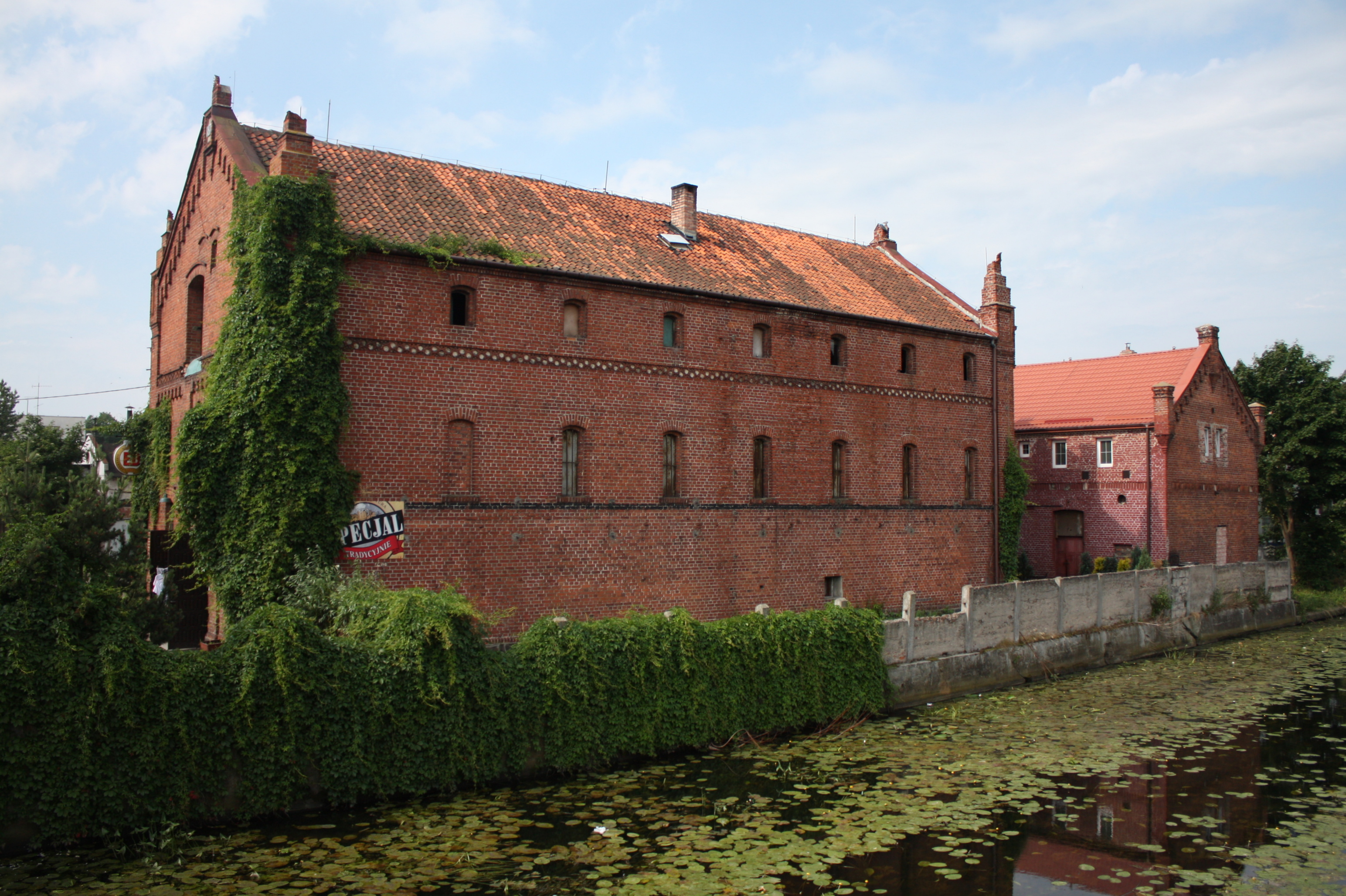 Granaries on the Tuja river in Nowy Dwór Gdański